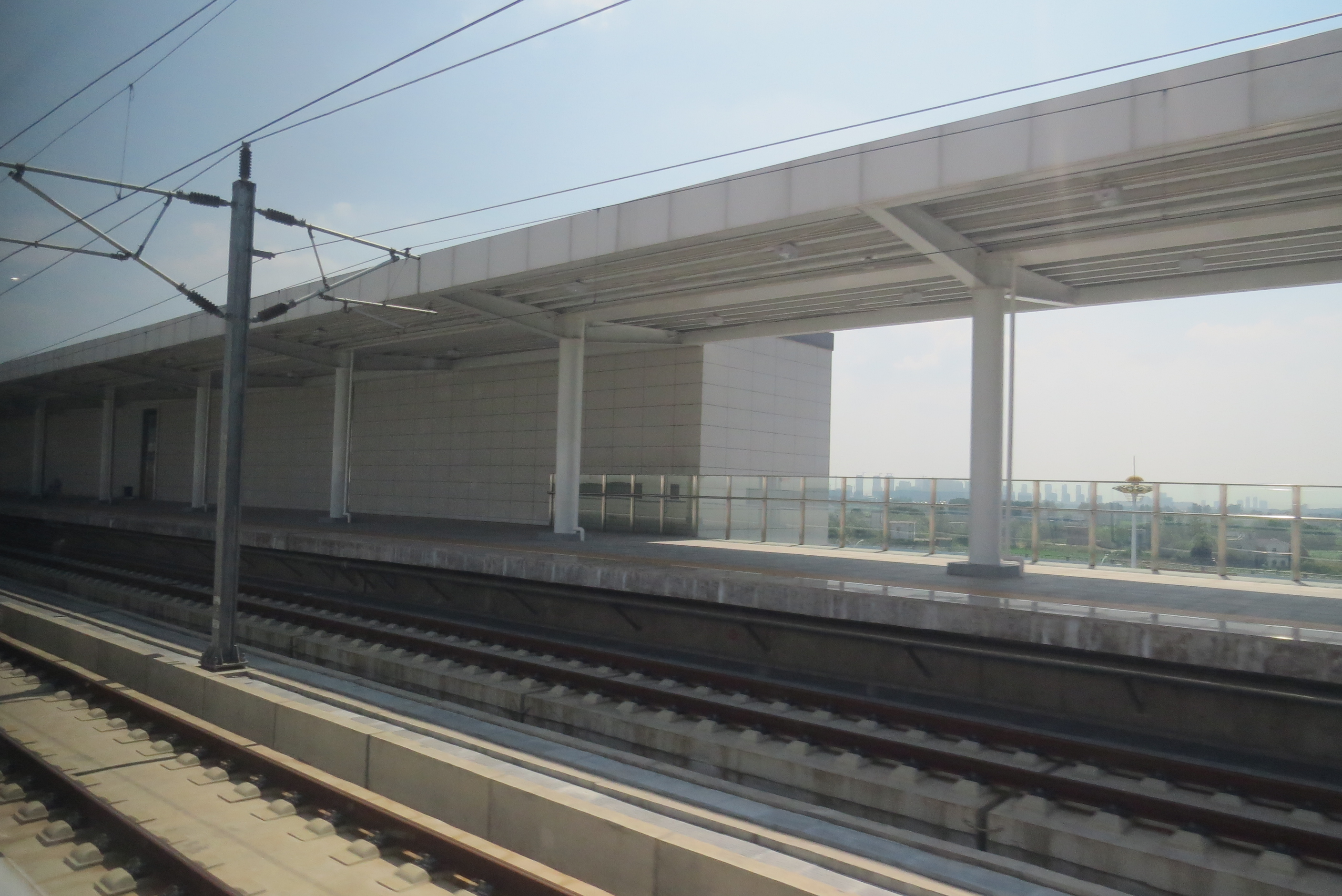 G27 did nothing at Wuwei, just like what the name (无为) indicates.